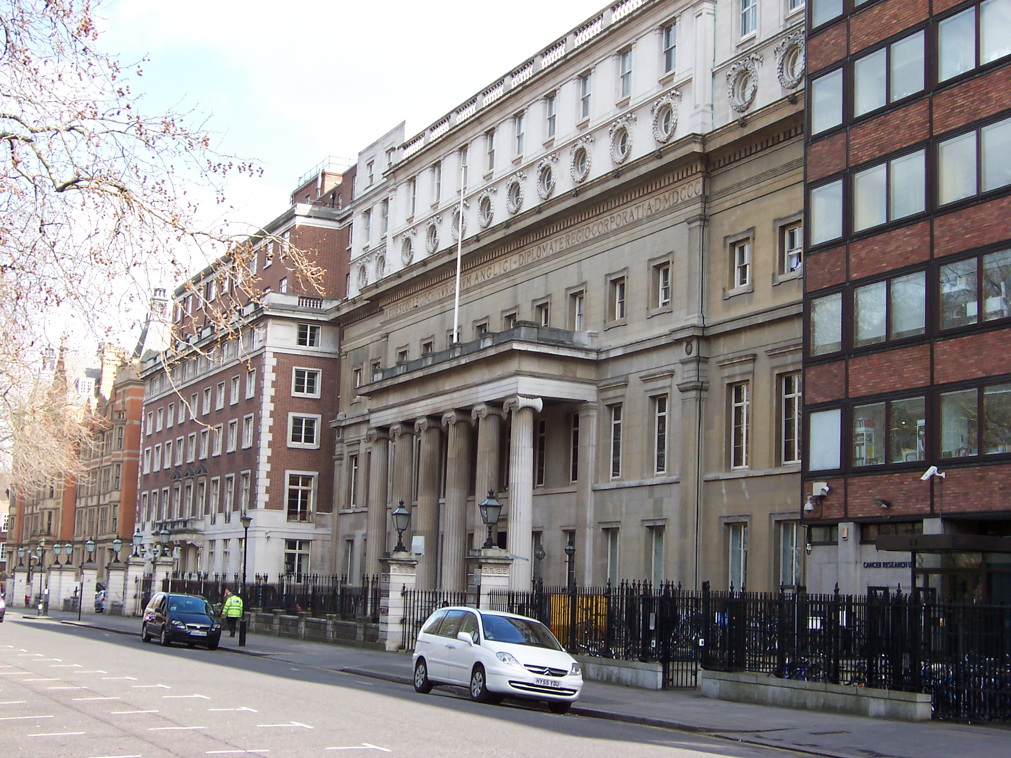 Buildings of the Royal College of Surgeons (center) and Imperial Cancer Research Fund (right, now Cancer Research UK) at Lincoln's Inn Fields, Holborn, London